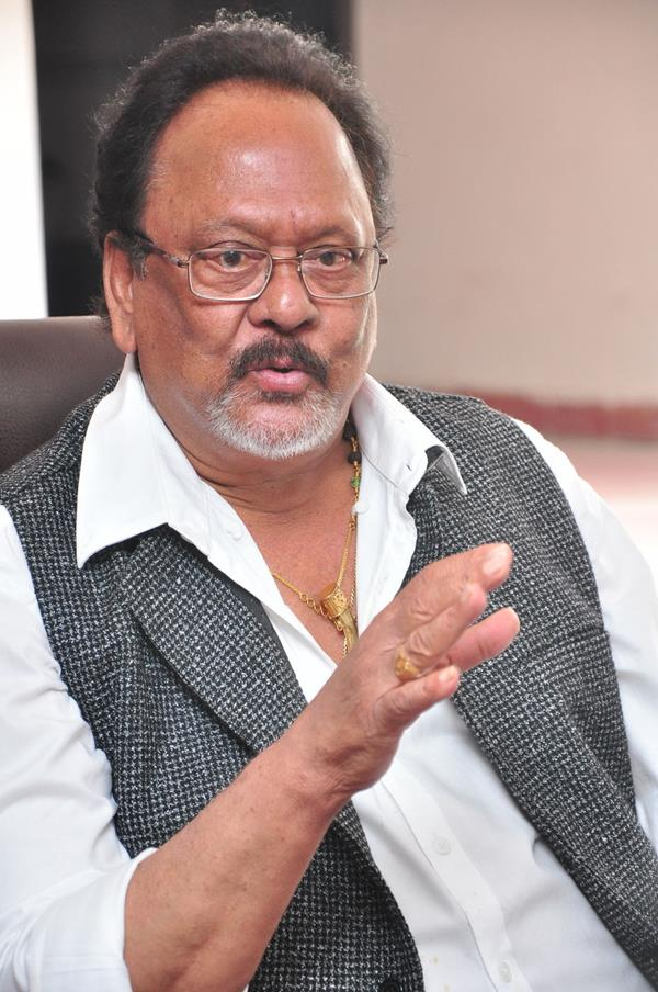 Photo of actor krishnam raju.